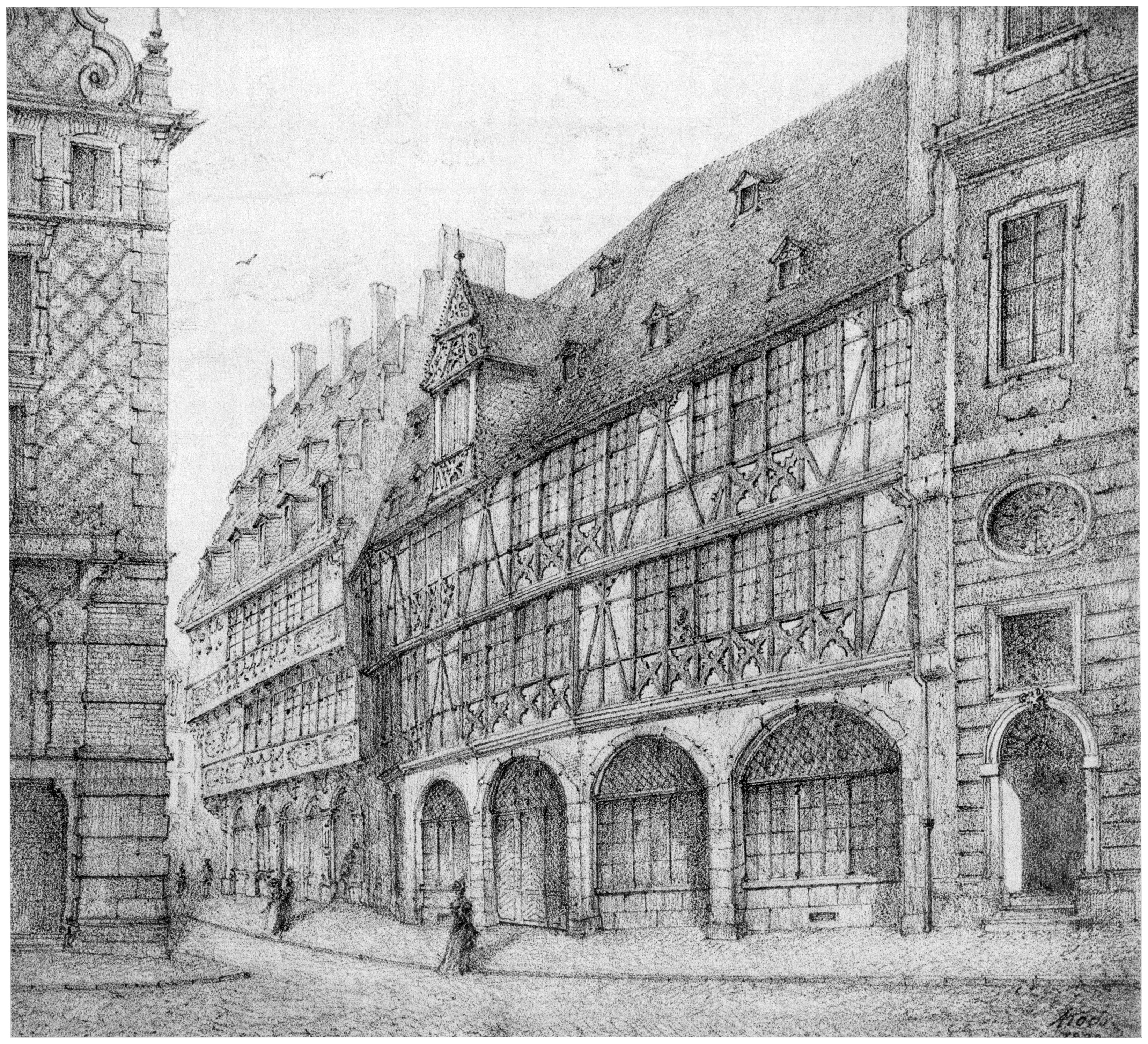 Frankfurt on the Main: House Wanebach and Salzhaus (Salt House) at the Wedelgasse (Frond Lane).